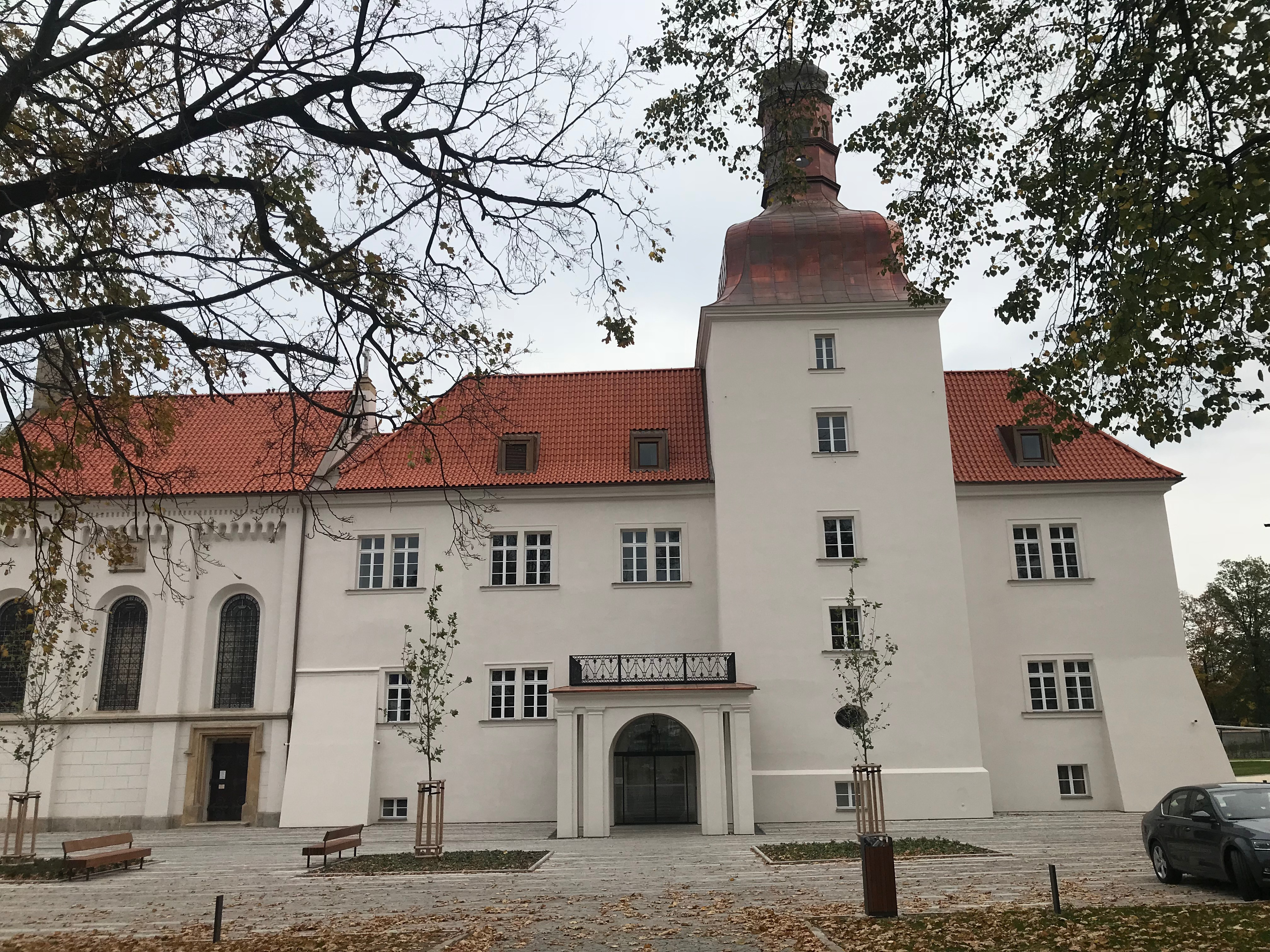 Chateau Dolní Břežany / Zámek Dolní Břežany / Dolní Břežany Castle after reconstruction which was completed in 2018, building will open in late 2018 as a hotel